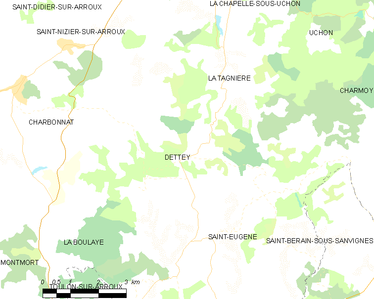 Map of French municipality